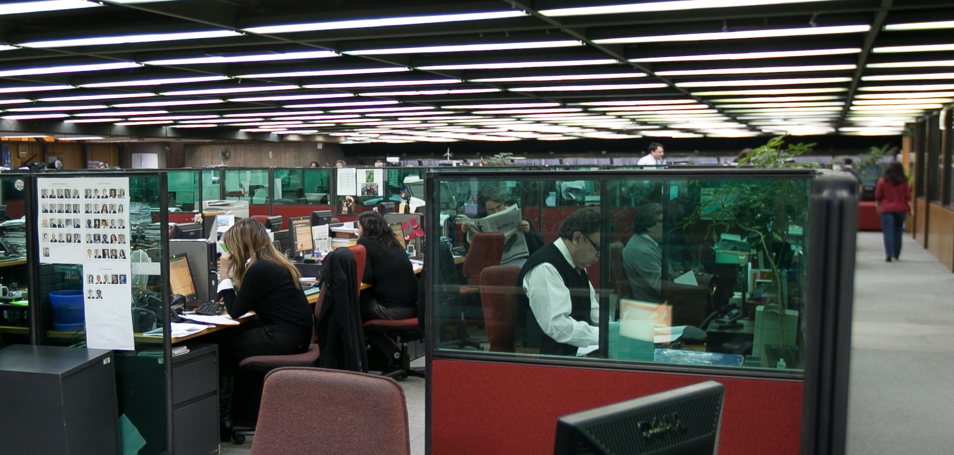 El Mercurio newsroom.